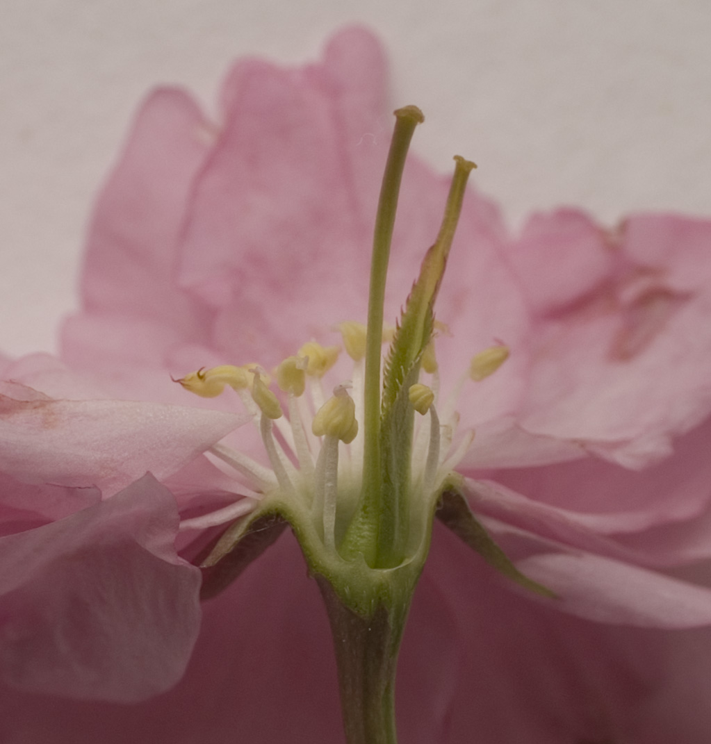 Japanese cherry metamorphosis carpel leaf